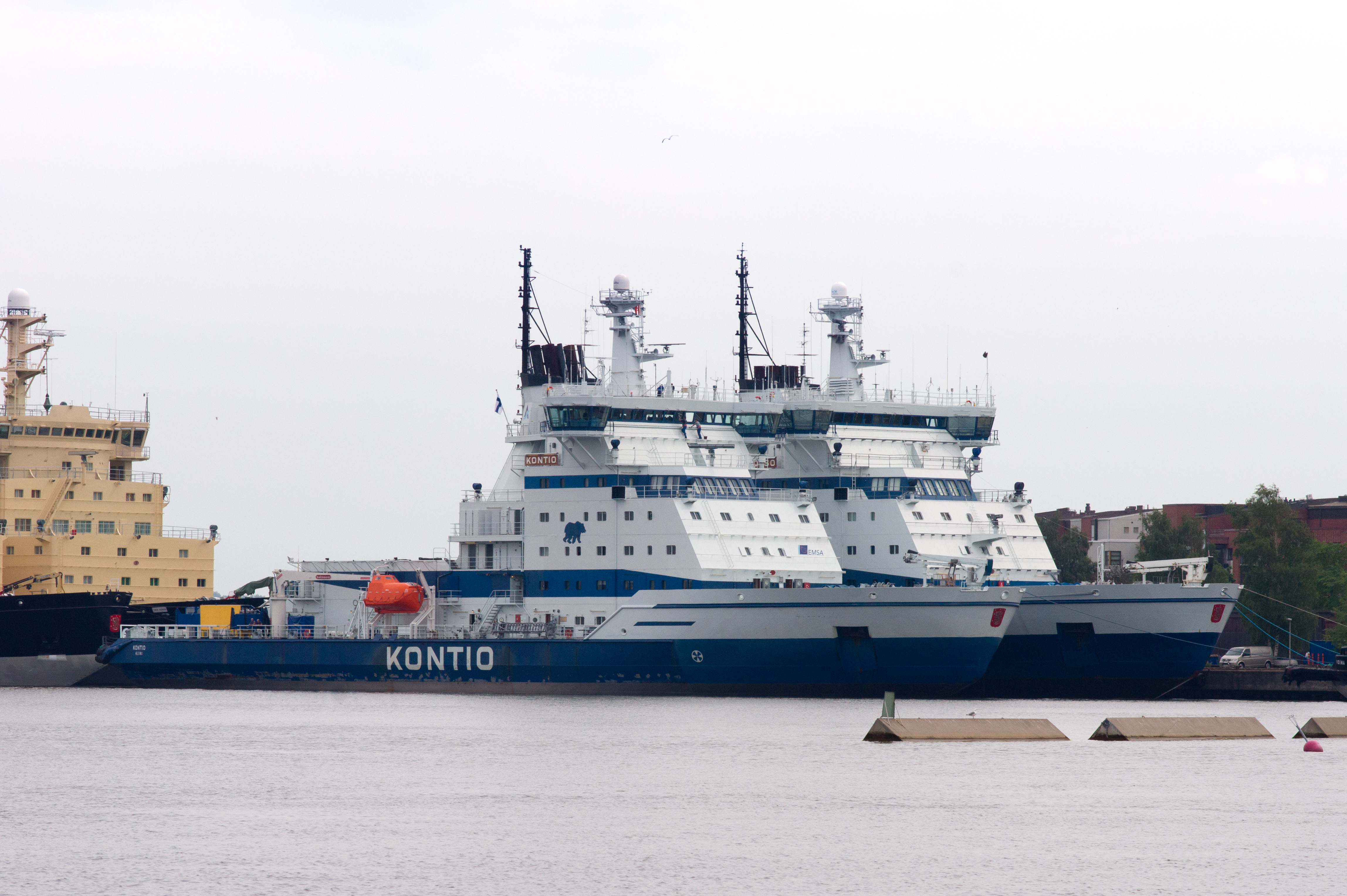 Finnish icebreakers MS Kontio and MS Otso in Helsinki